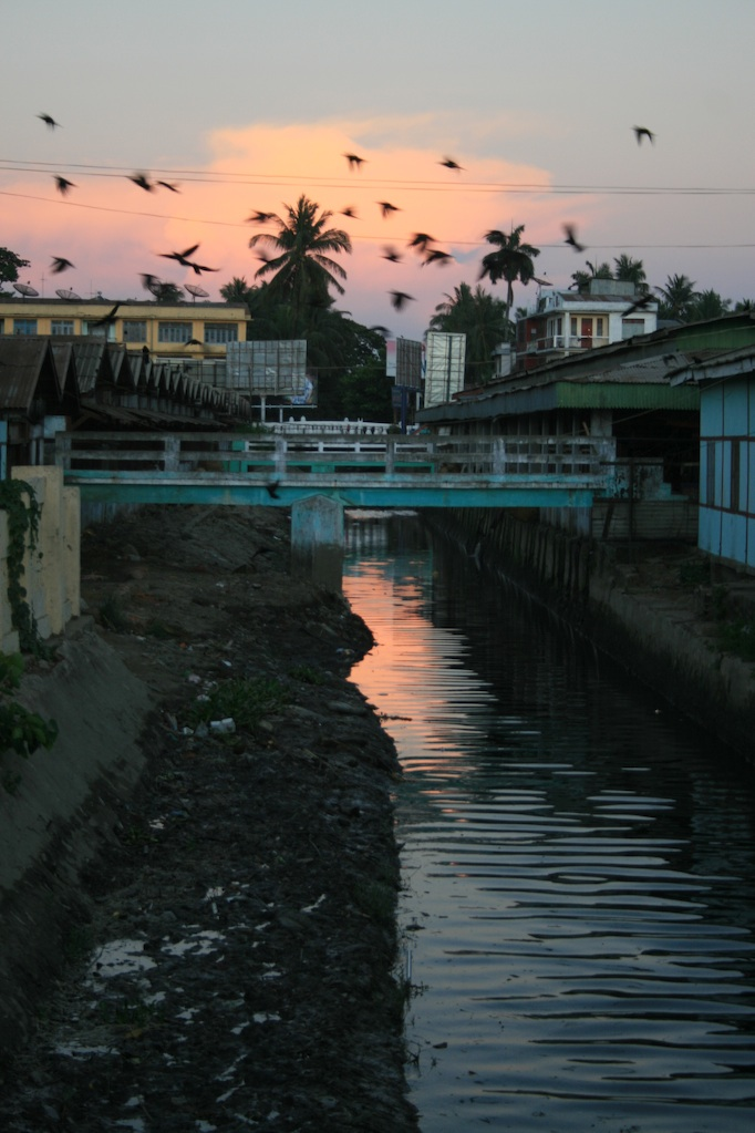 Pathein, Myanmar